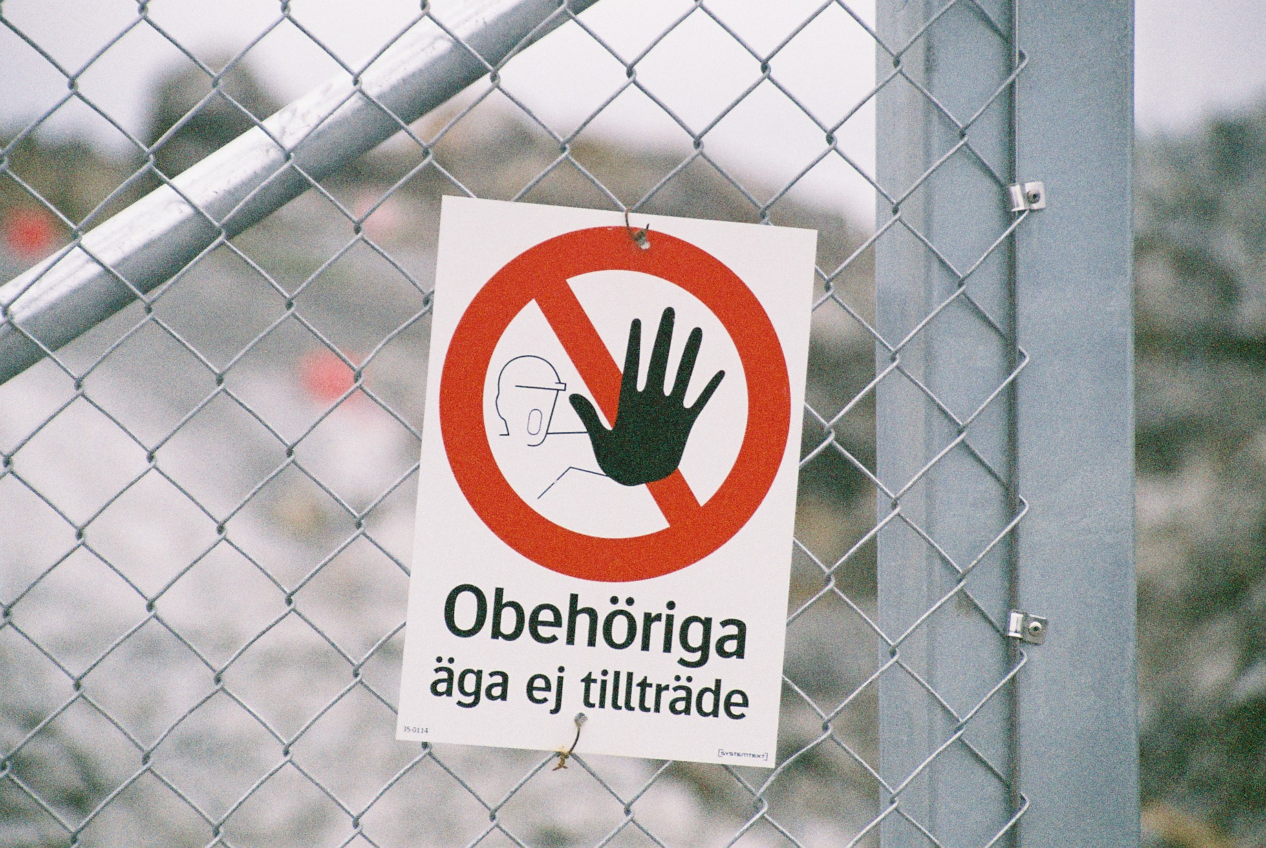 Obehöriga äga ej tillträde (No trespassing) sign in Kvarnholmen.